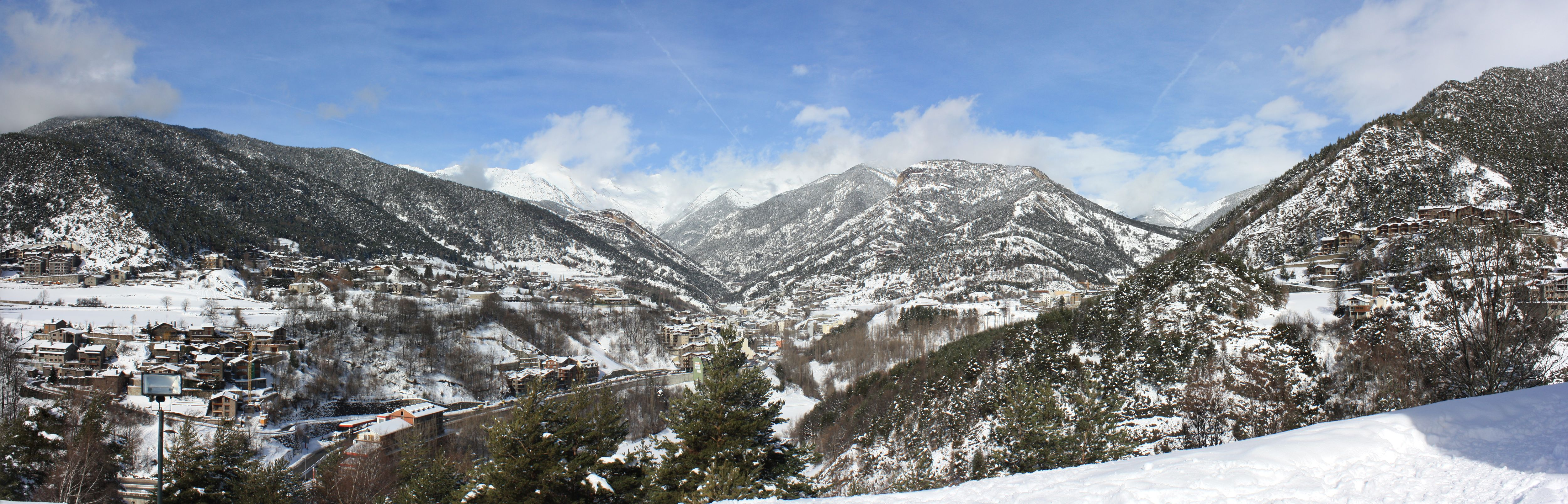 La Massana, Principat d'Andorra